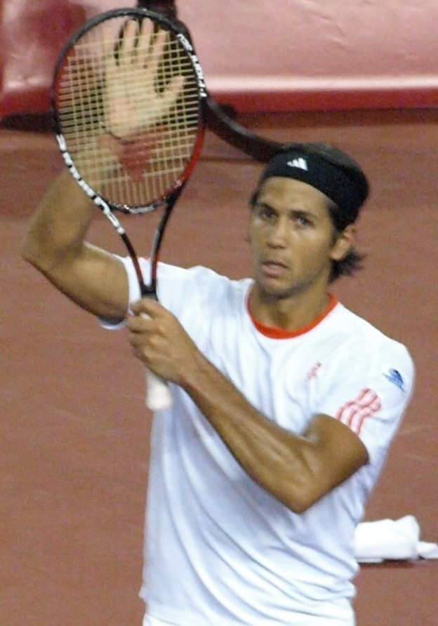 Fernando Verdasco saludando al público de Cáceres tras su victoria en el Master Nacional de Tenis en Diciembre de 2007